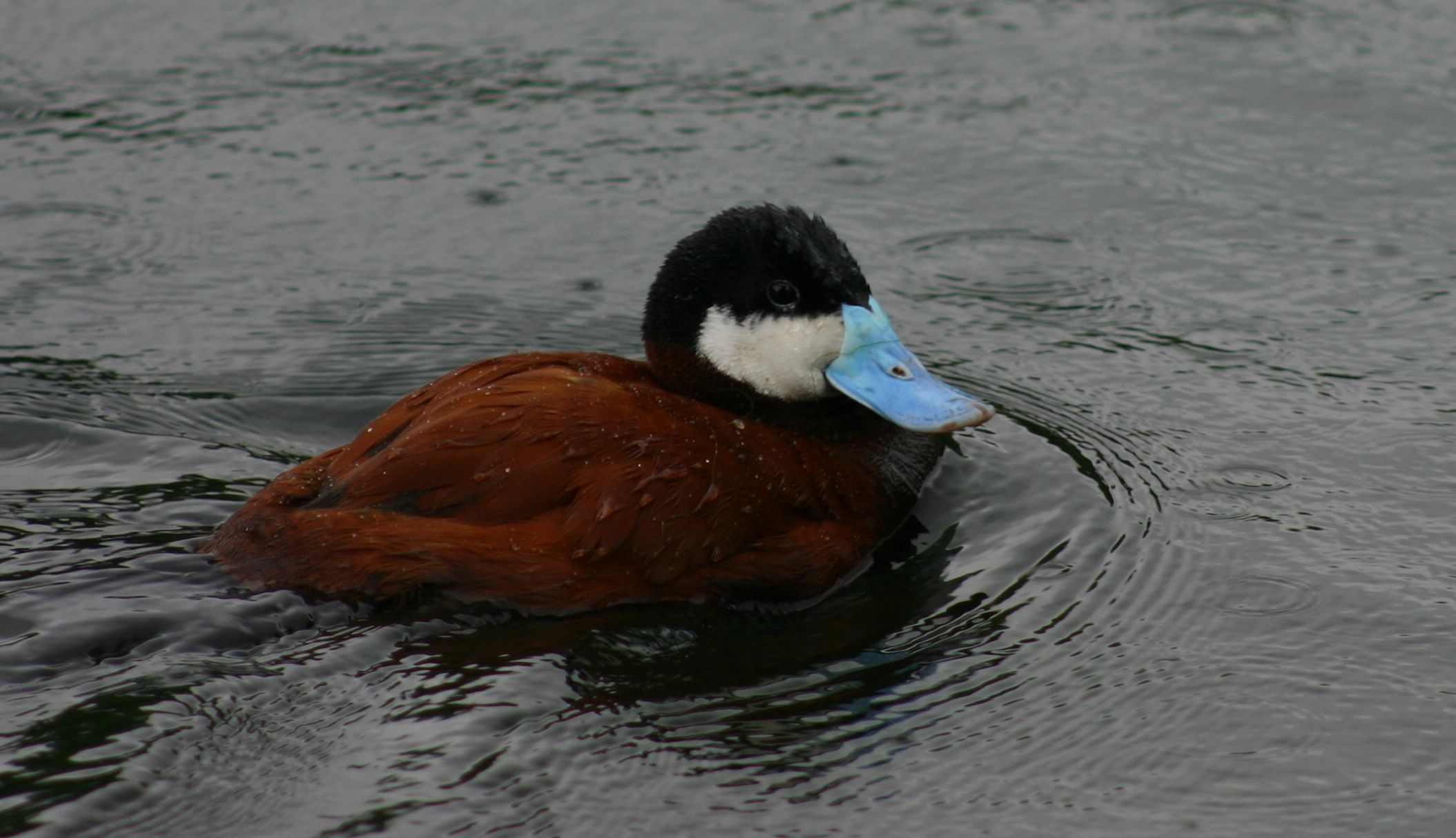 Rudy Duck Oxyura jamaicensis in a garden in London